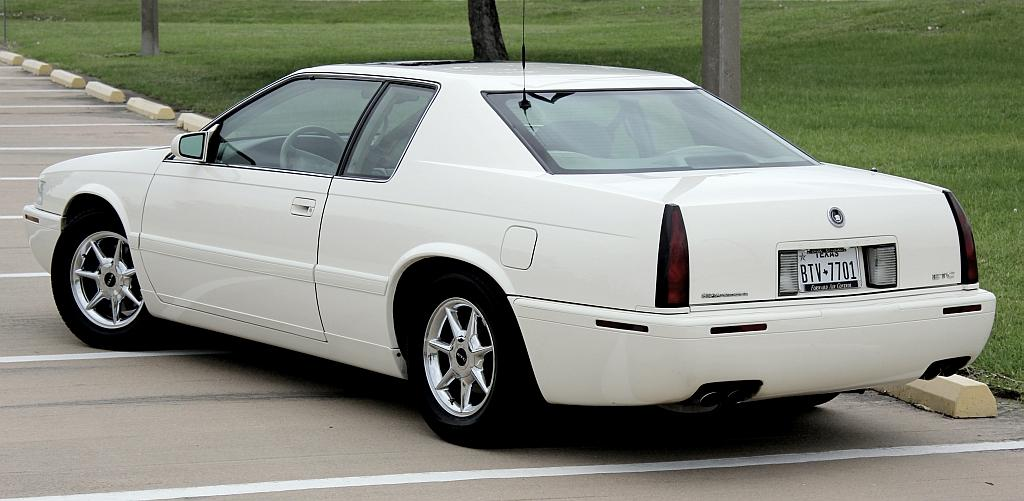 English